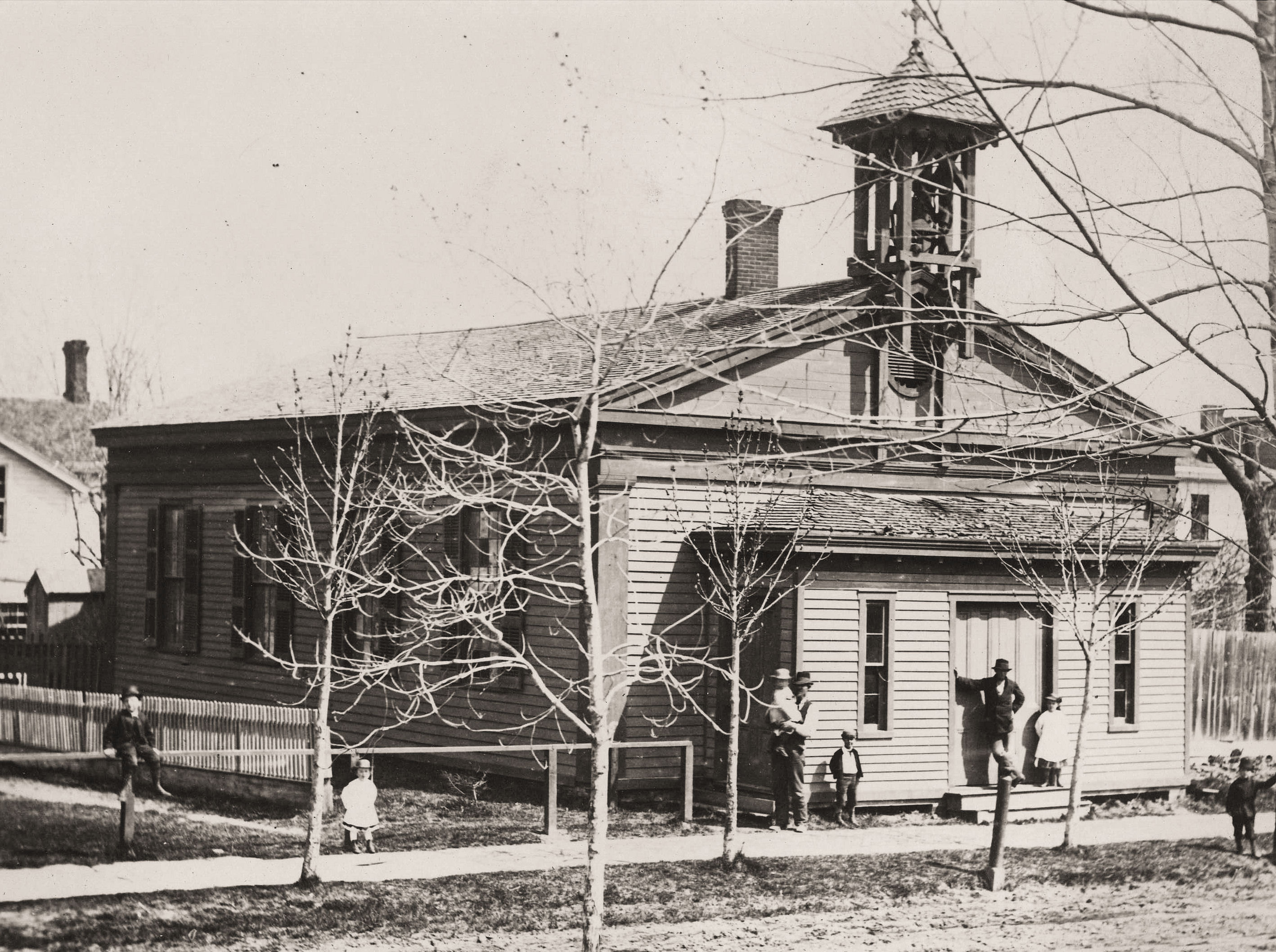 St. Peter's Chapel, Geneva New York about 1860